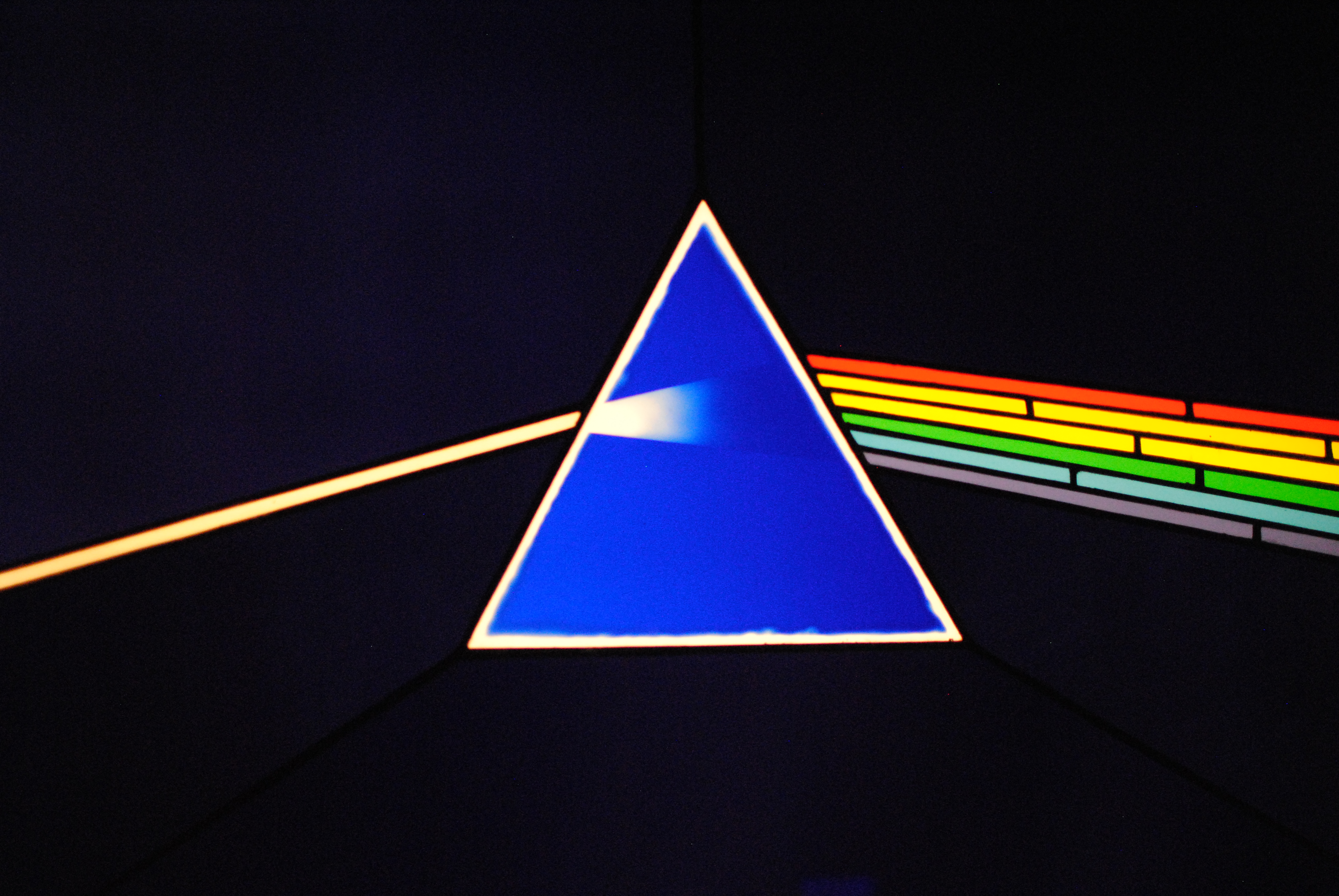 close-up of part of a reproduction of the cover artwork for 'The Dark Side of the Moon', in stained glass; displayed at the Pink Floyd: Their Mortal Remains exhibition at the Victoria and Albert Museum.